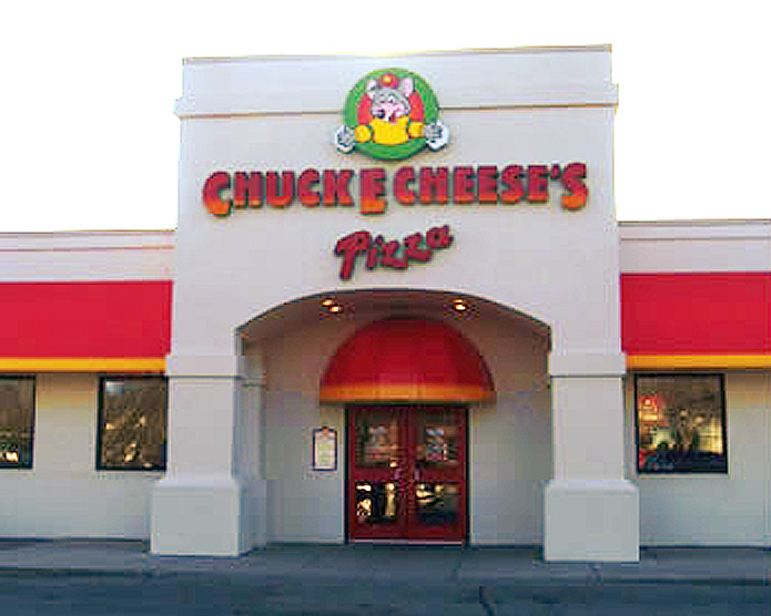 An older Chuck E. Cheese's location branded only as a restaurant. The name for the restaurant-only Chuck E. Cheeses is called "Chuck E. Cheeses Pizza." There's the 1989-1995 Chuck E. Cheese's logo with the word, "Pizza" and 1993-1995 Chuck E. Cheese.